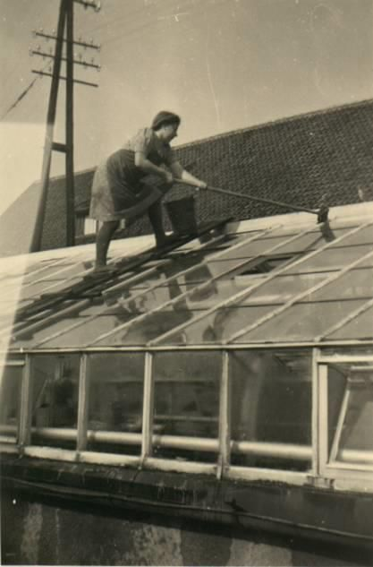 Reifensteiner Schule Obernkirchen 1960 Gewächshaus